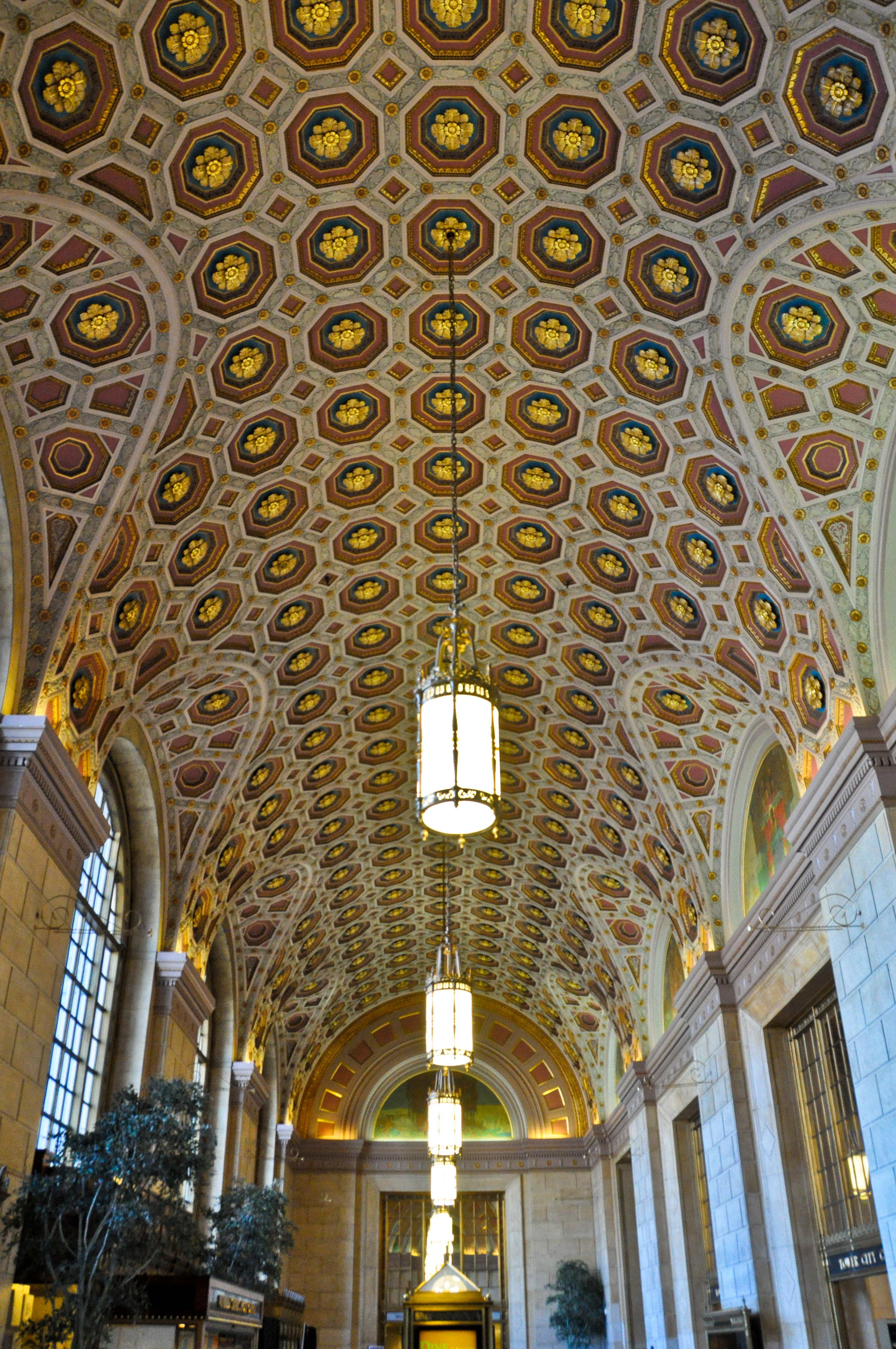 The vaulted ceiling of the main entrance to the Terminal Tower in downtown Cleveland, Ohio. The murals are by Jules Guerin.